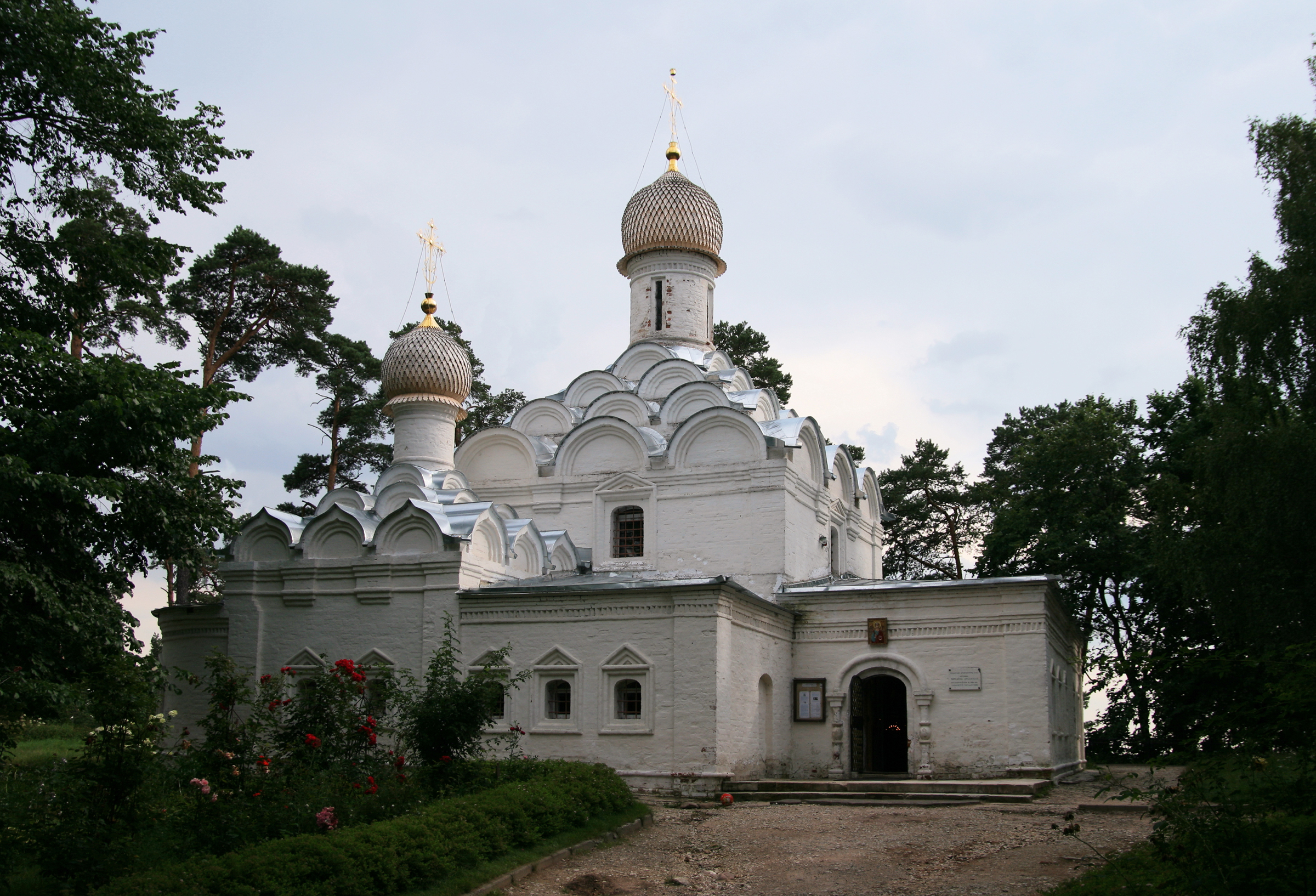 Church Mihail Arhangel in Arkhangelskoye, 1660-1667